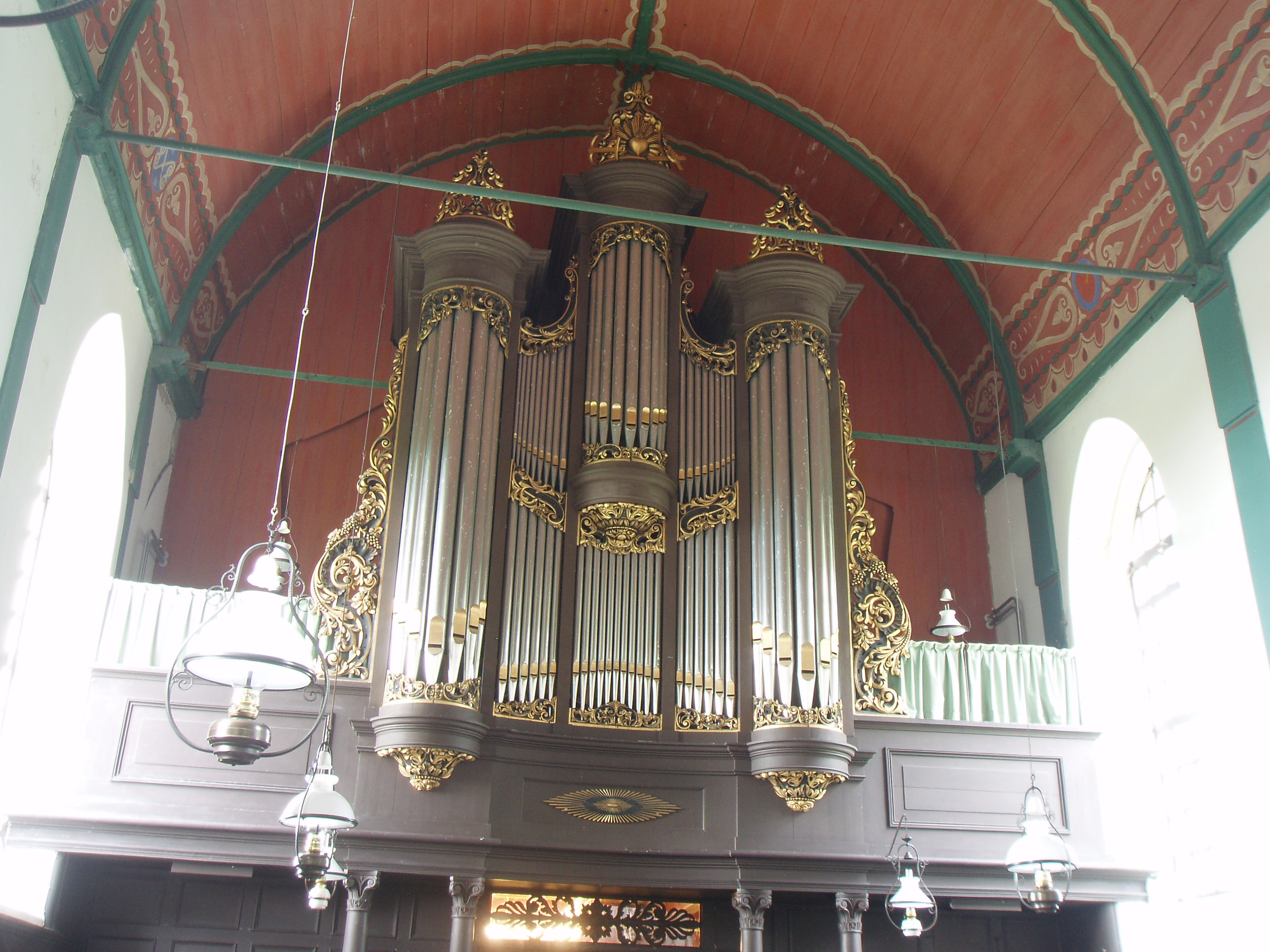 L. van Dam 1870